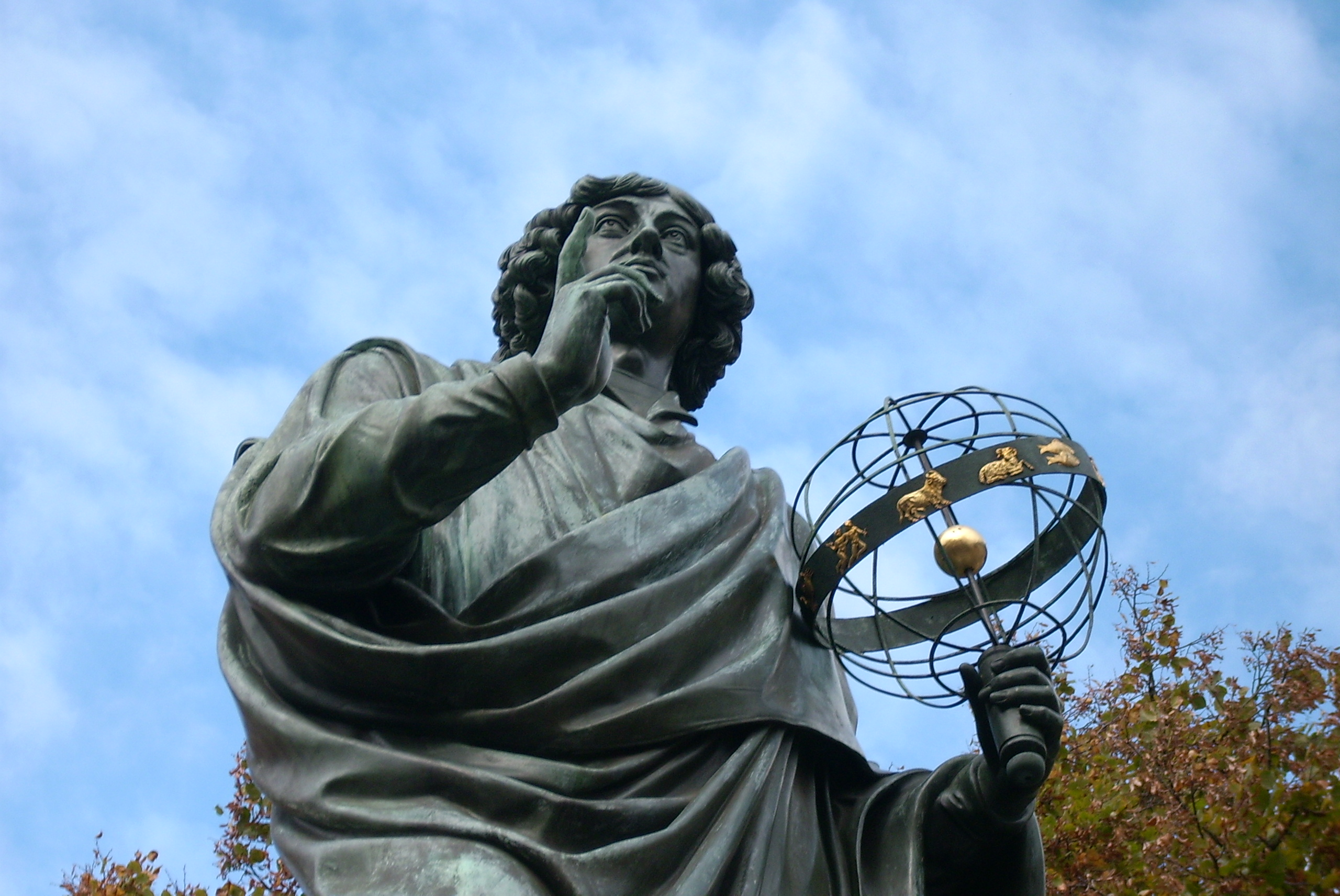 Statue of Mikołaj Kopernik in Toruń(Poland)